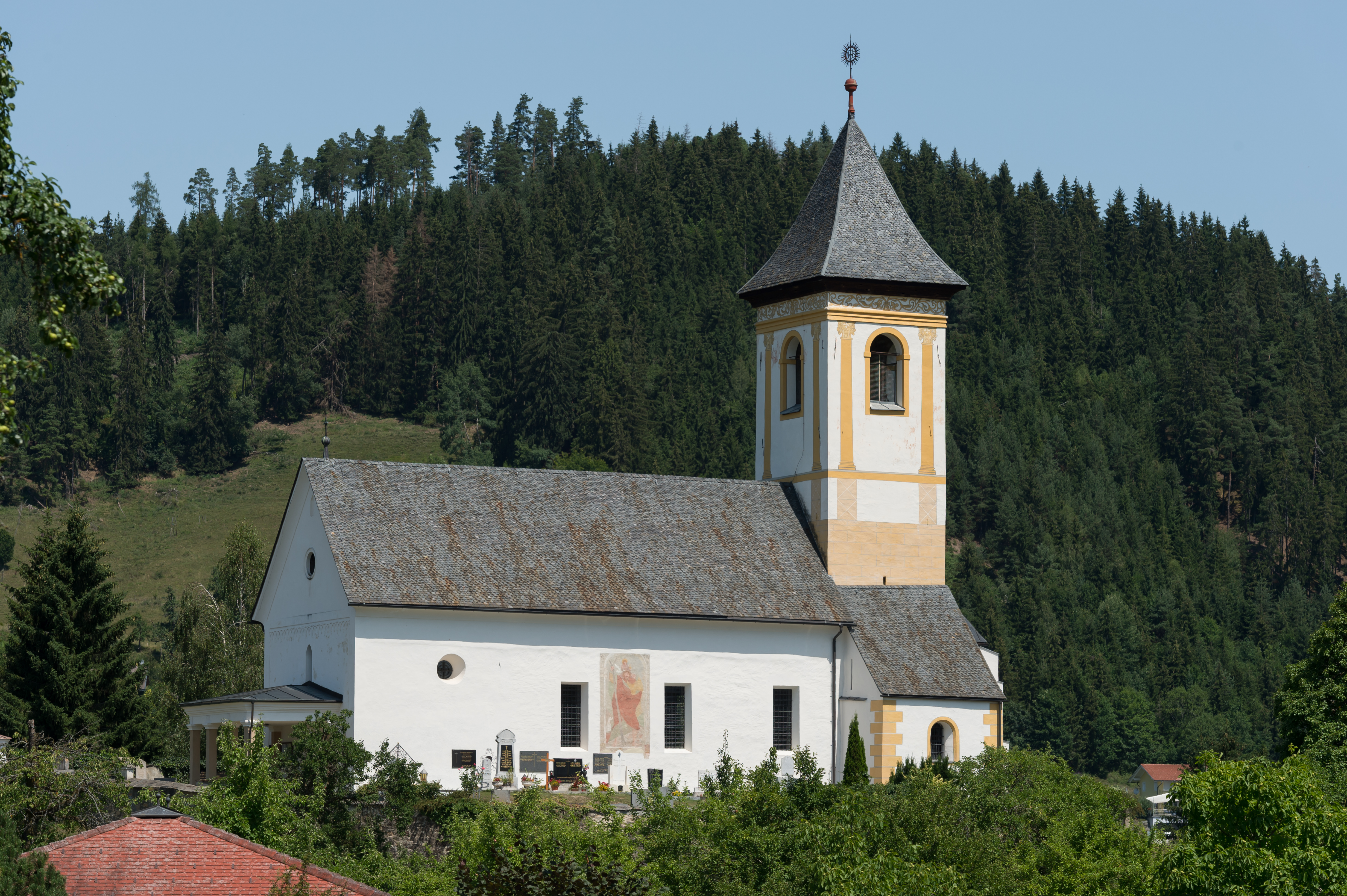 Parish church Saint Peter in Sankt Peter, municipality Sankt Georgen a. L., district Sankt Veit, Carinthia, Austria, EU